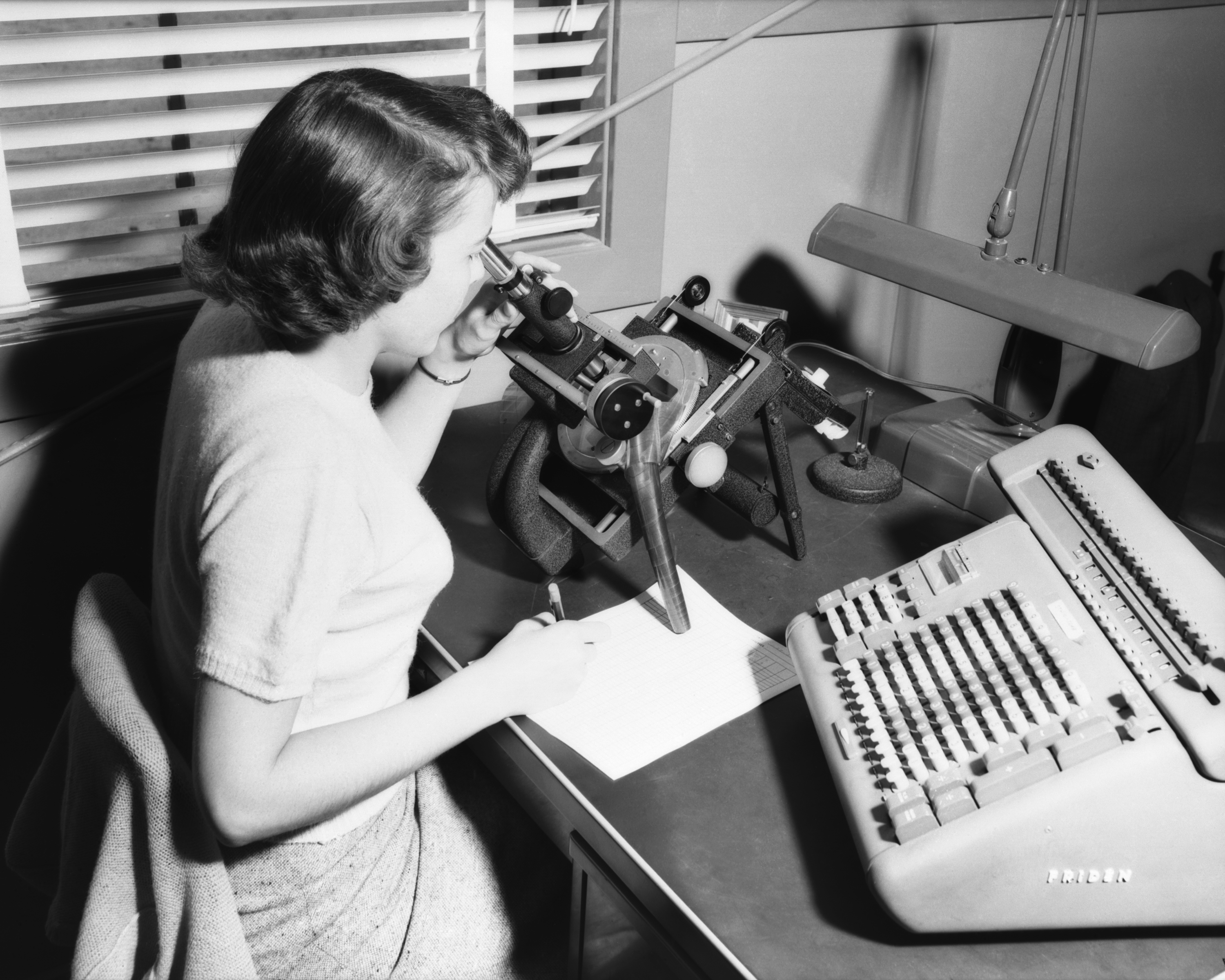 (March 24, 1952) X-4 program with what Langley engineers called "Female Computer" support personnel. Image # : L-74768